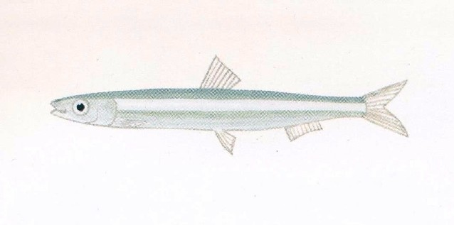 Spratelloides gracilis. Tempera on paper